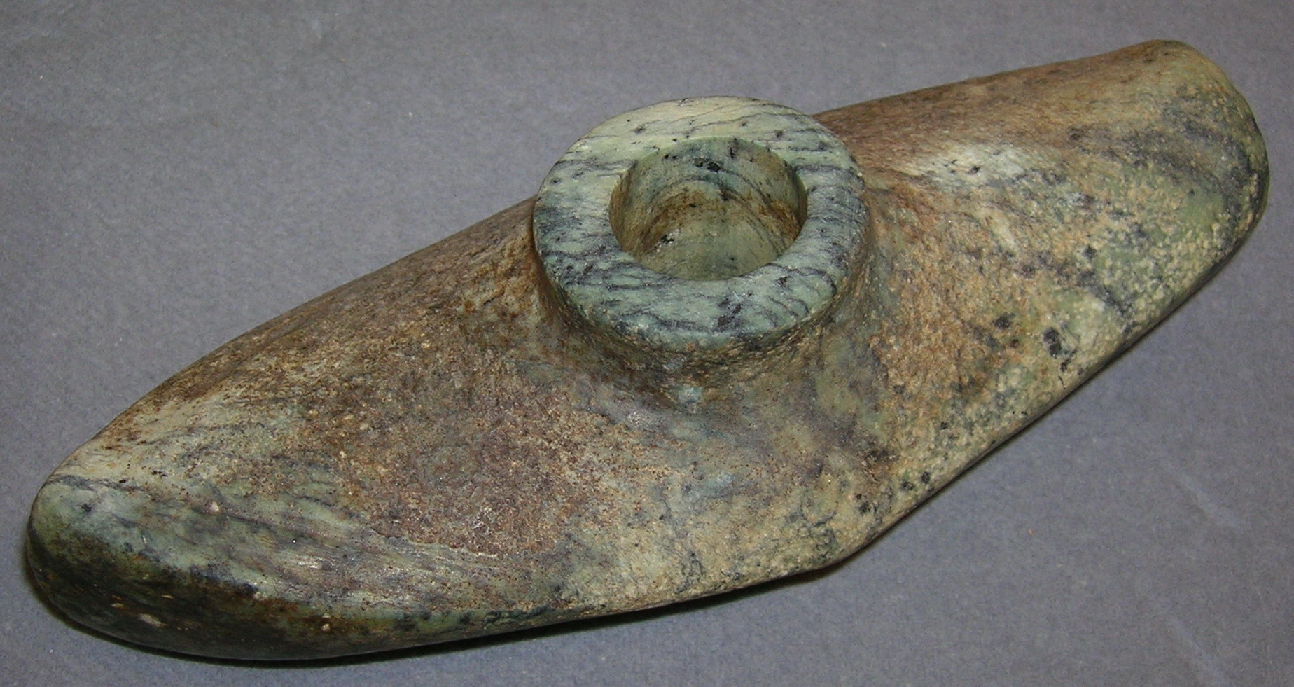 Socalled «battle-axe» (Streitaxe) or boat axe of Swedish-Norwegian type, 2800-2400 BC. Discovered the summer of 2003 by a Danish tourist (fisher) at the river of Eiterå, Dunderland, in Rana municipality, Nordland, Norway. Handed over to the cultural department of Rana Museum on 1 July 2004. Photo 21 May 2007 with a NIKON Coolpix 5600 5,1 Megapixel camera.